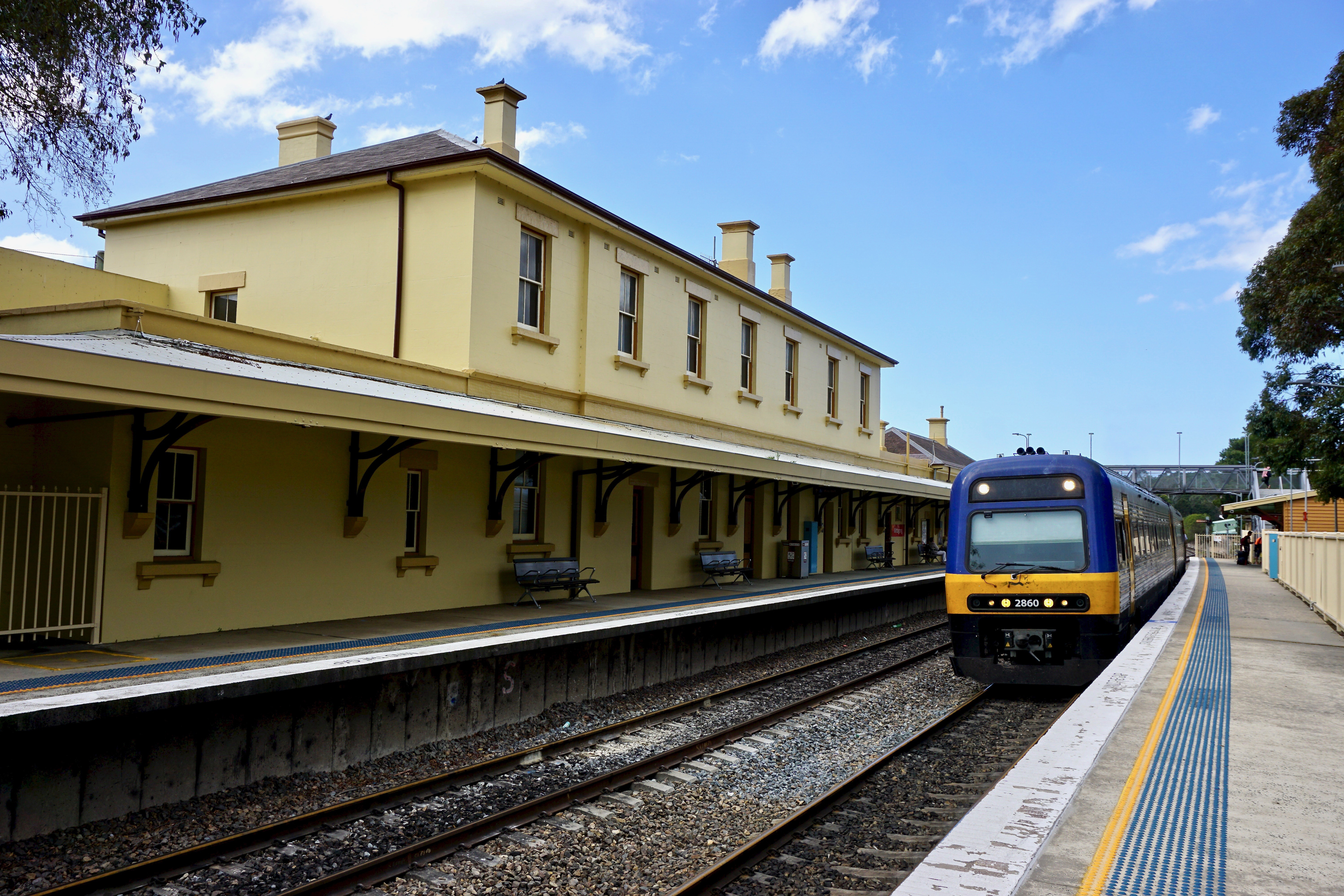 Mittagong railway station, looking northward from Platform 2 with a southbound train.